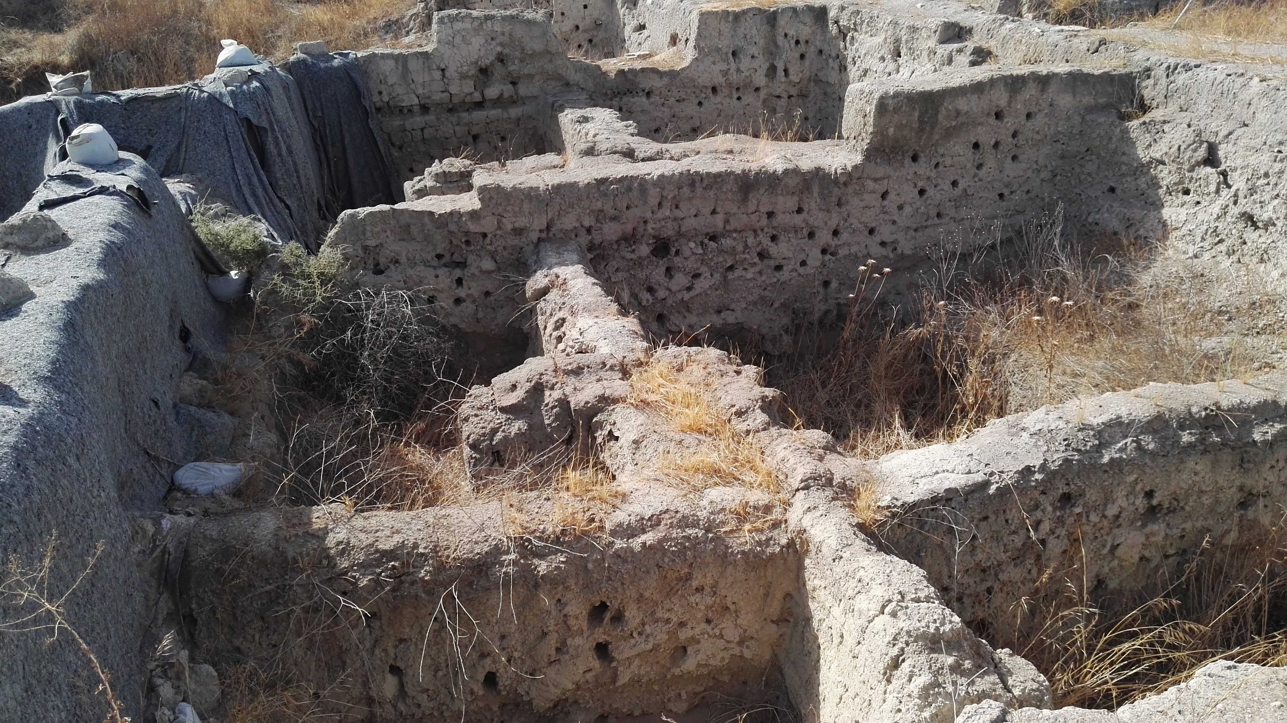 Tel Rehov, Israel.